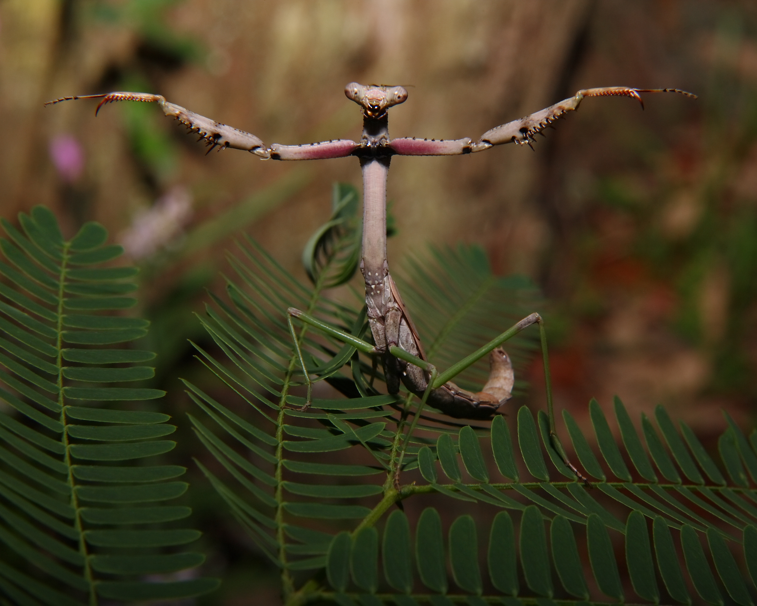 Adult Large Brown Mantid (Archimantis latistyla) in typical defense position. Photo taken at Boy Scout Camp Echockotee in Orange Park, Florida, 32o73.